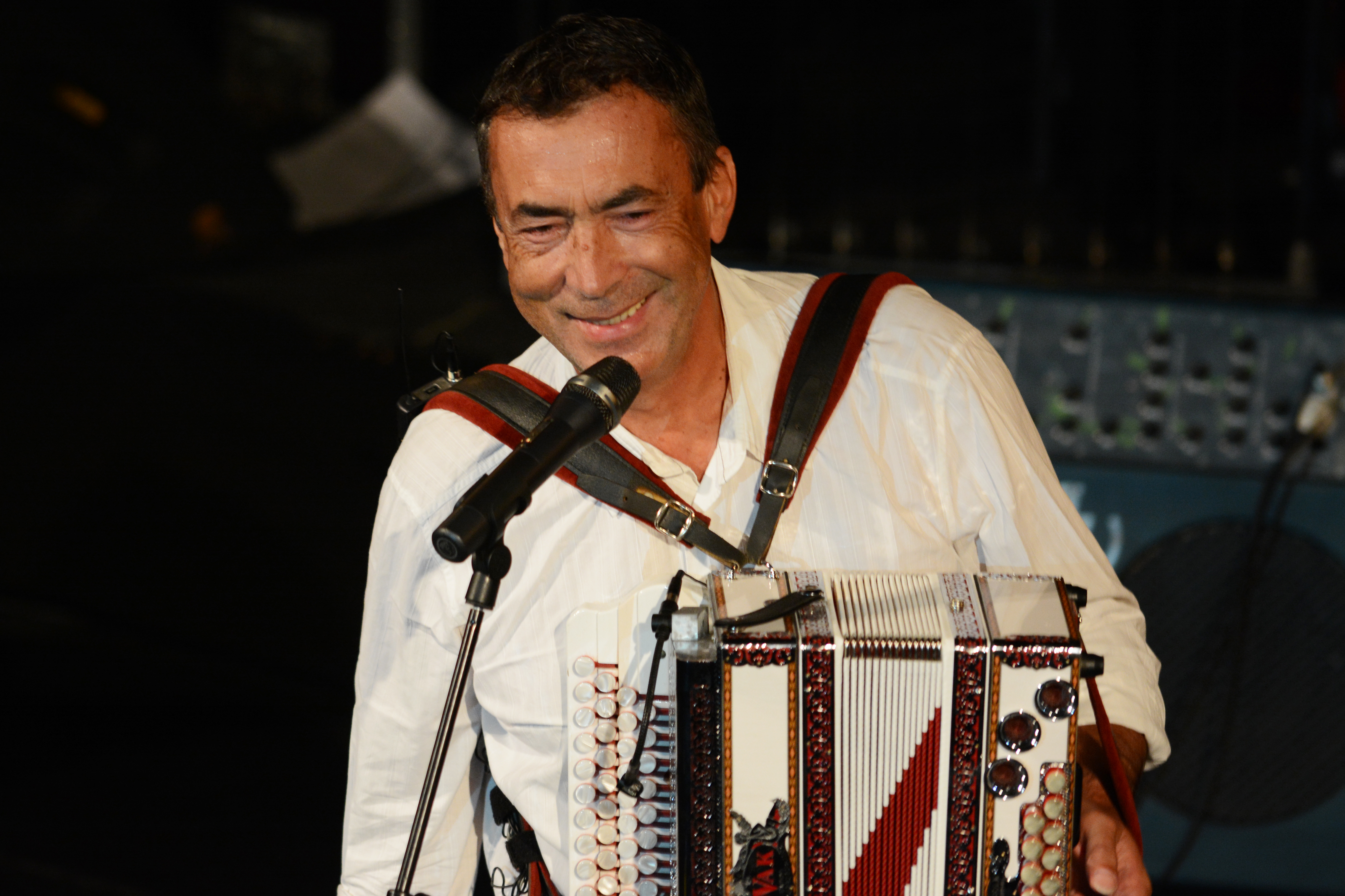 Hubert von Goisern on stage in Bad Ischl (2014)